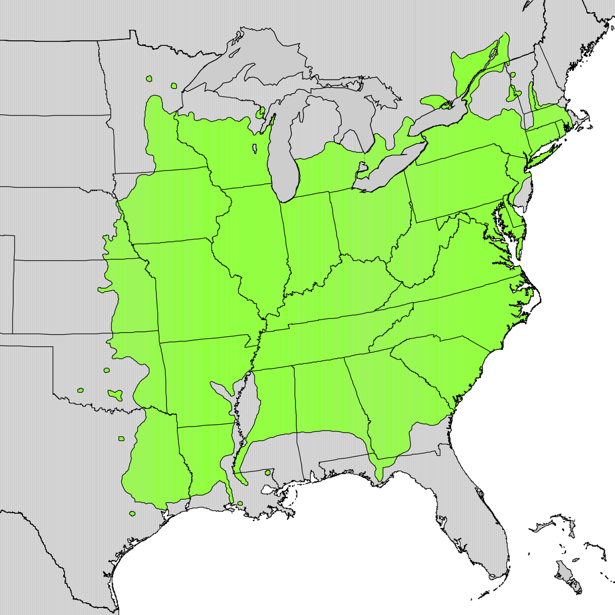 Range map of Carya cordiformis